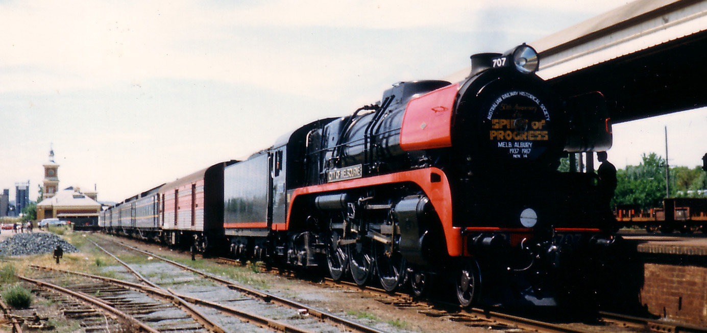 Australian Railway Historical Society 50th Anniversary of the Sprit of Progress Commemorative Train